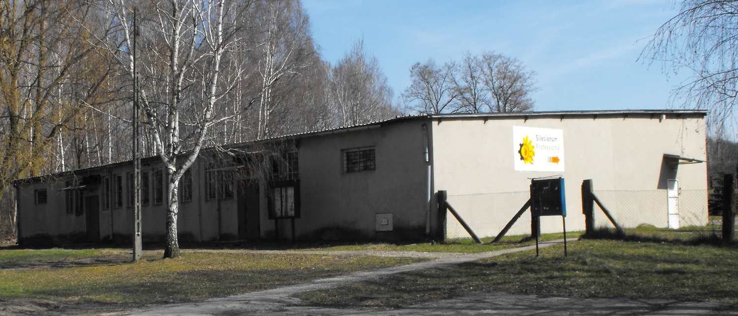 Temporary church of St. Mary of Kochawina in Gliwice